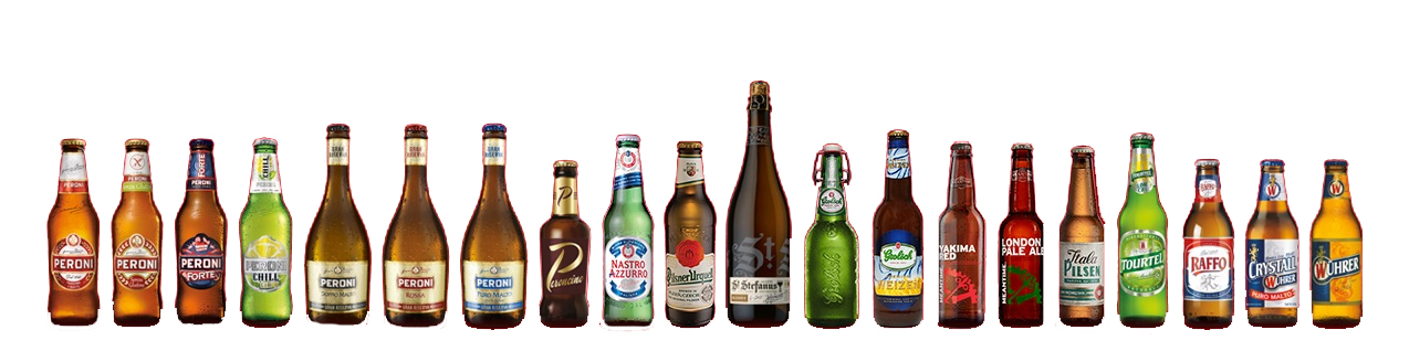 The complete gamma of Birra Peroni beer